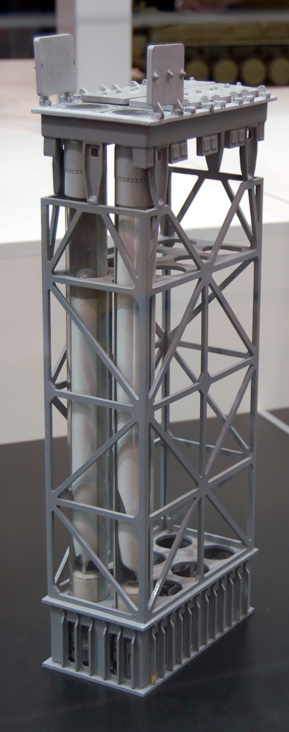 Maquette of 3S-14 launcher. MAKS-2009